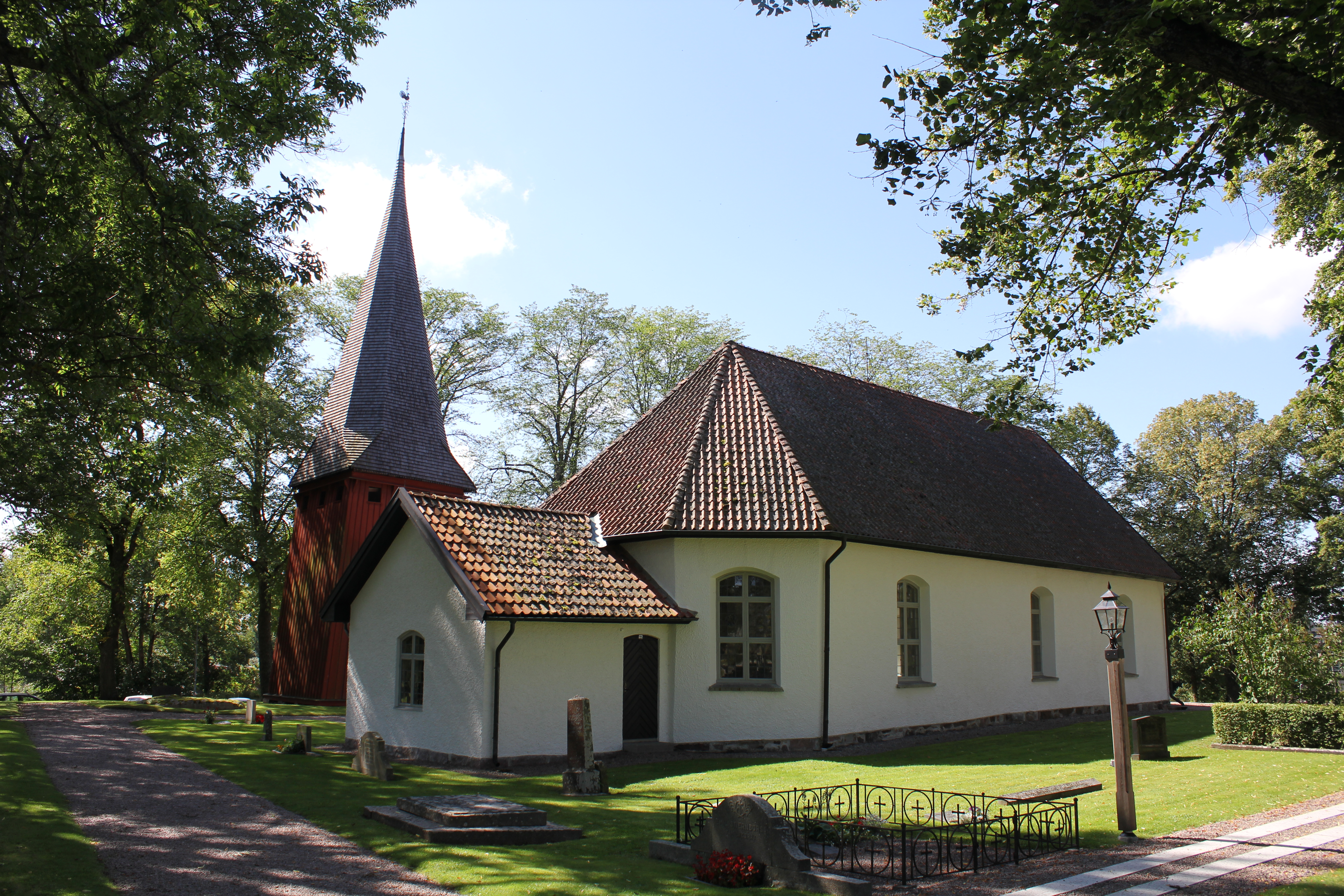 Vads kyrka in Tidan, Skövde municipality. View from north east.